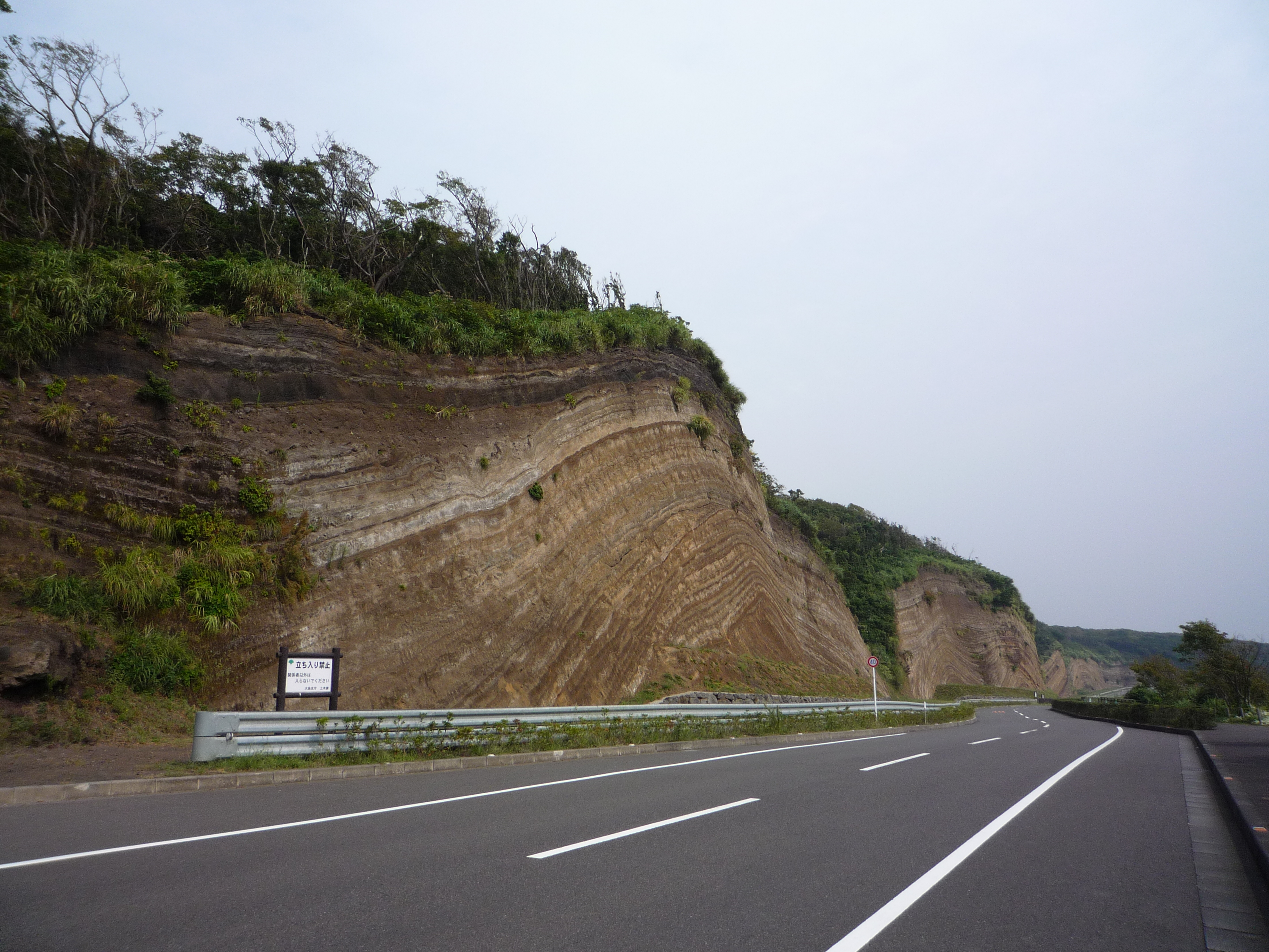 Volcanic ash-fall layers on Izu Oshima volcano in Japan. The volcanic ash was erupted into the air by the volcano. The ash then fell back onto ground. The ash was deposited during Pleistocene and Holocene times on an uneven ground surface. The ash layers are parallel to the curvature of the underlying ground surface. The folds are known as drape folds. The ash layers have not been folded after deposition.